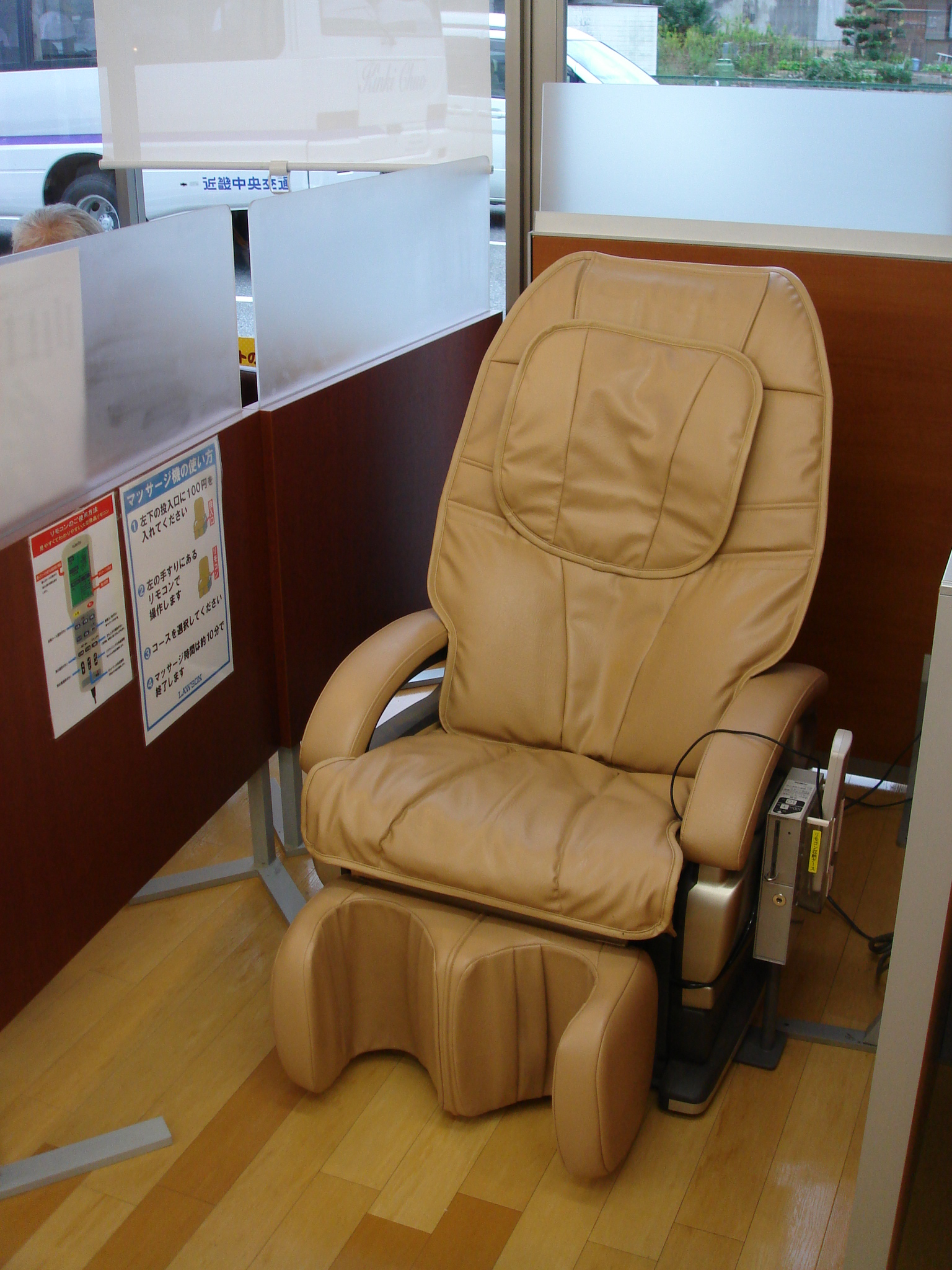 USA This Luraco medical massager is one of the best massage chairs today actually the best in my opinion I could find because it features tons of quality characteristics all rounding up its medical purpose.